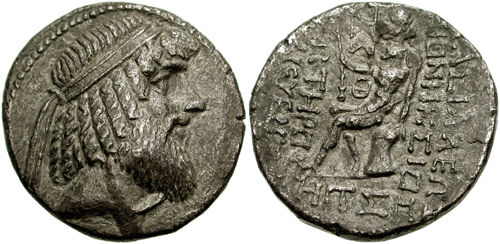 Coin of Thionesios I (c. 24-19 BC), king of the Characene